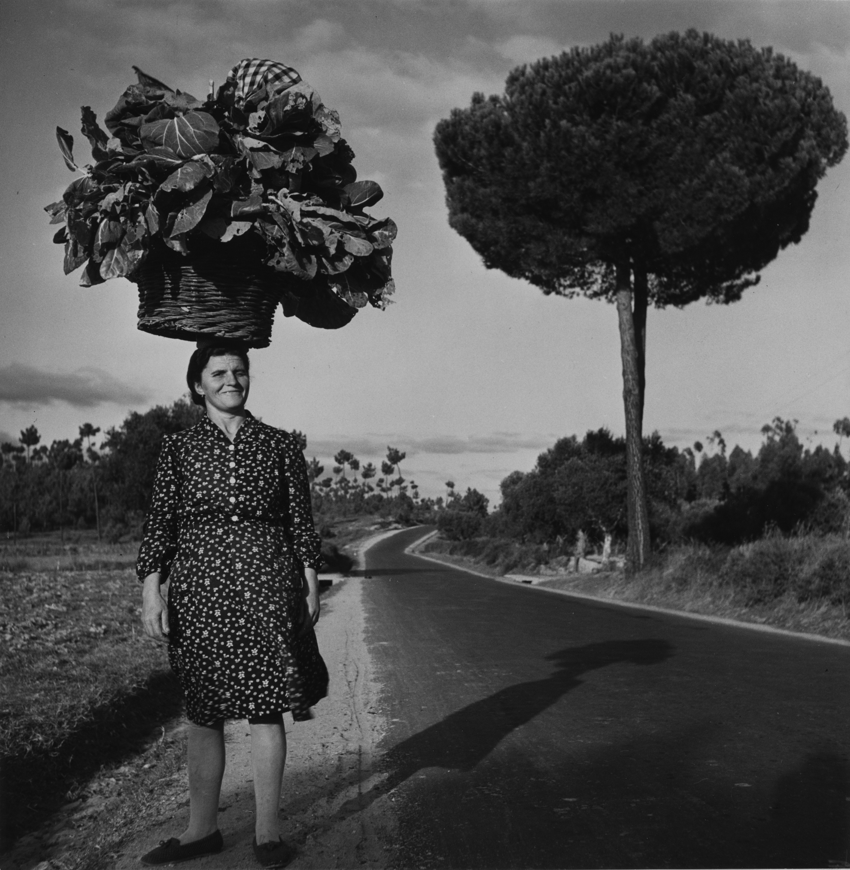 A peasant woman carries her truck-garden produce on her head - and the load looks as big as a small tree